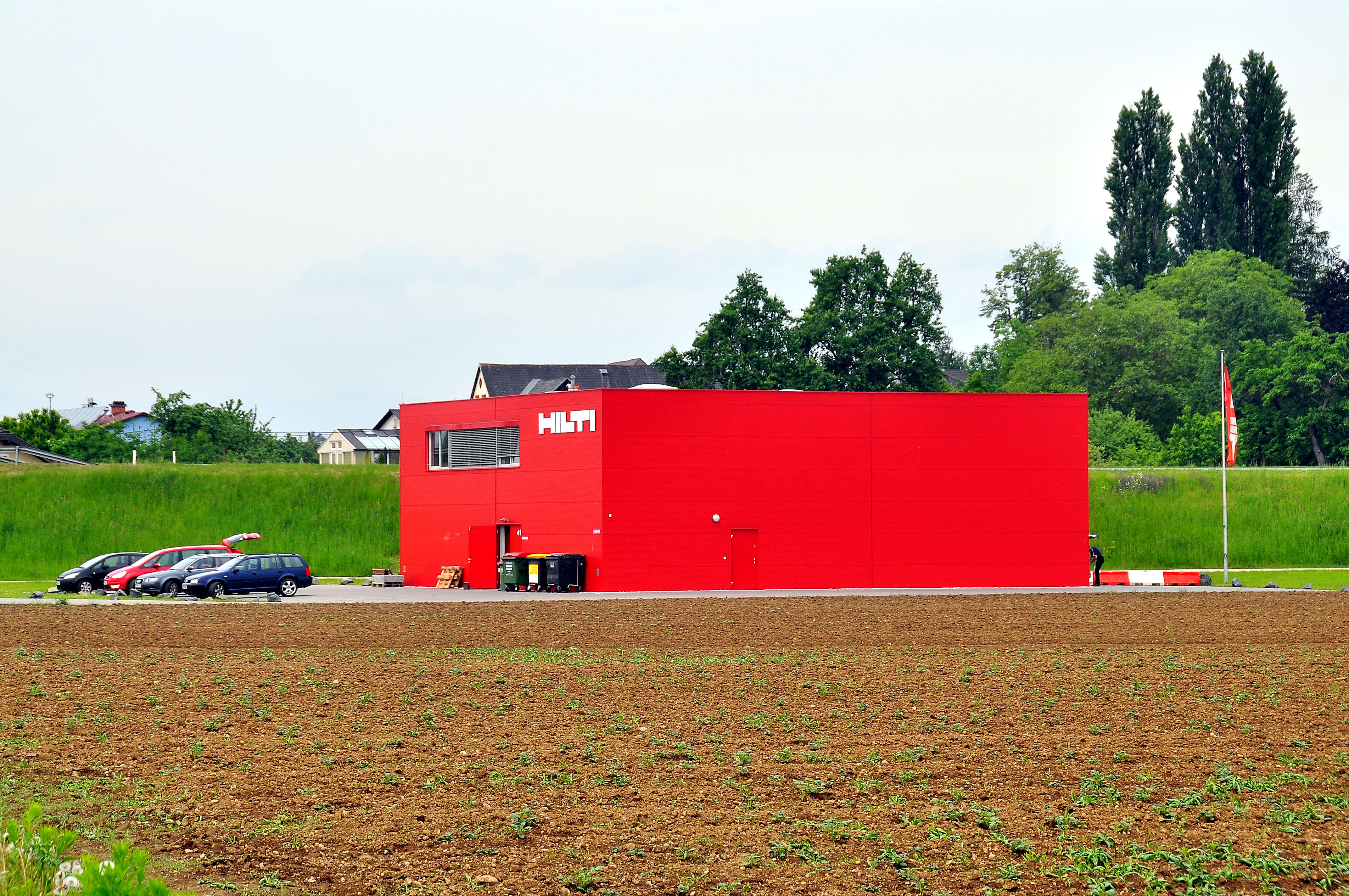 HILTI company on the Schuelerweg #41, situated in the 15th district “Hoertendorf” of the Carinthian capital Klagenfurt on the Lake Woerth, Carinthia, Austria